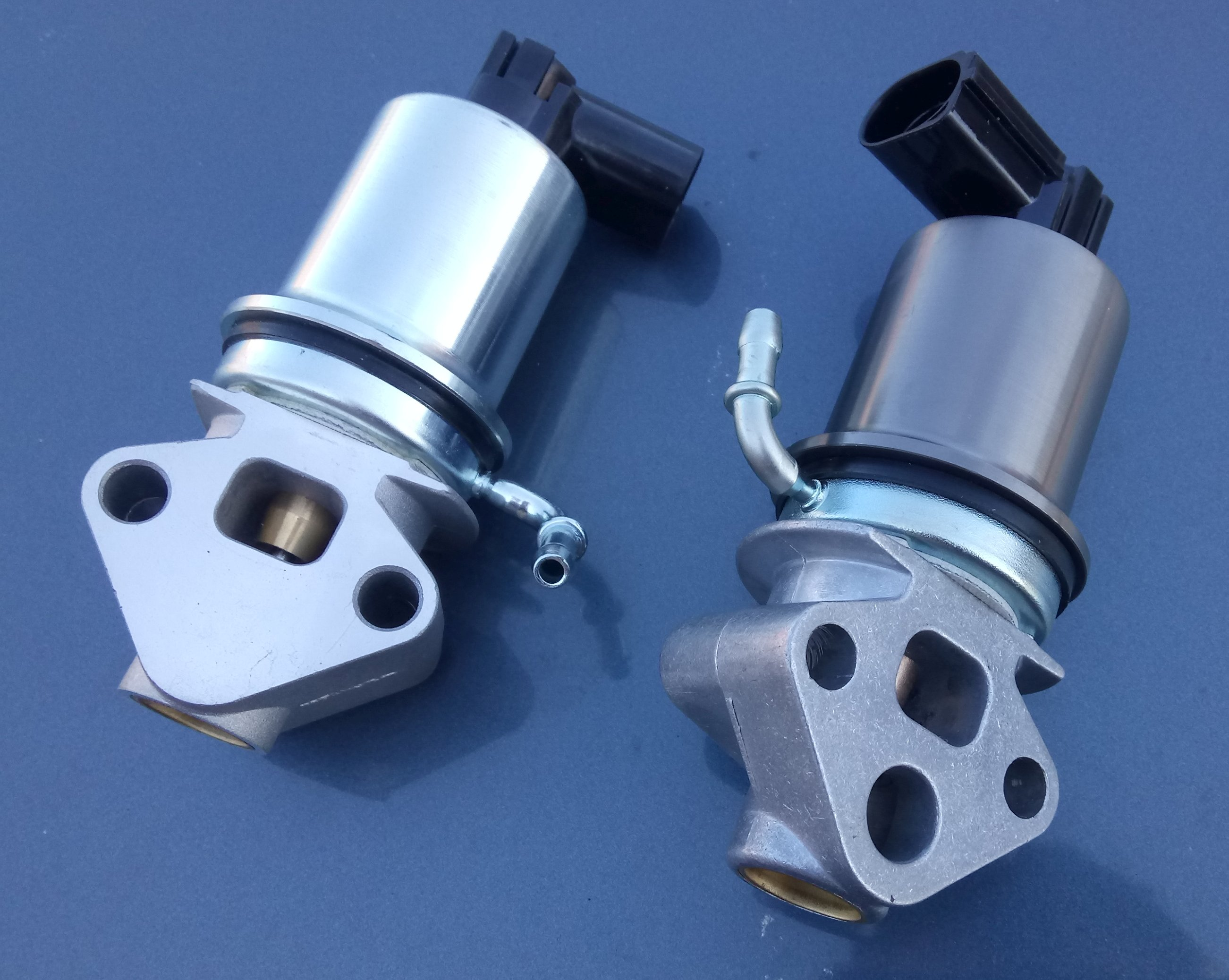 Exhaust gas recirculation